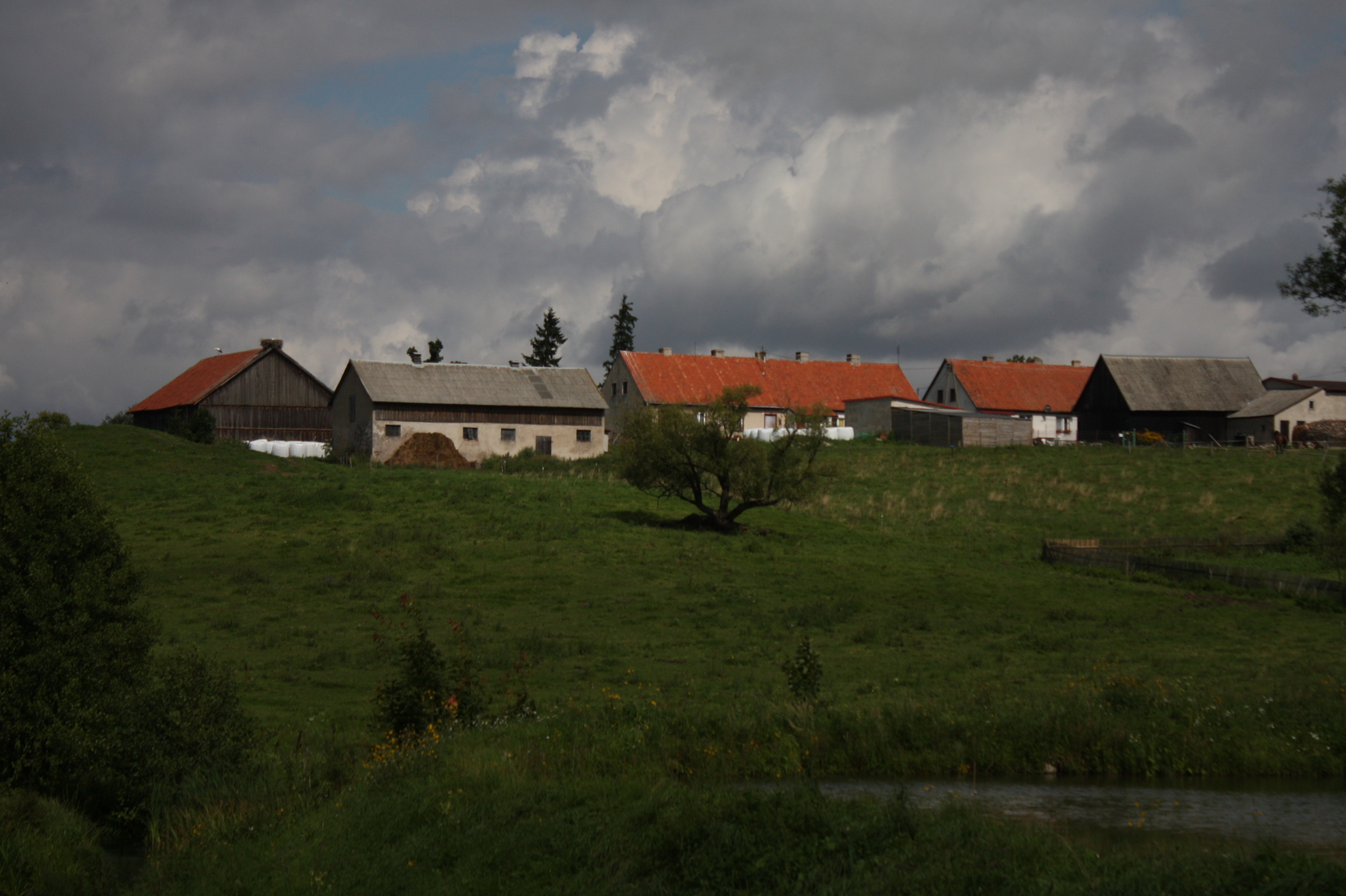 This photo of Warmian-Masurian Voivodeship was taken during Wikiexpedition 2012 set up by Wikimedia Polska Association. You can see all photographs in category Wikiekspedycja 2012. The making of this document was supported by Wikimedia Polska.